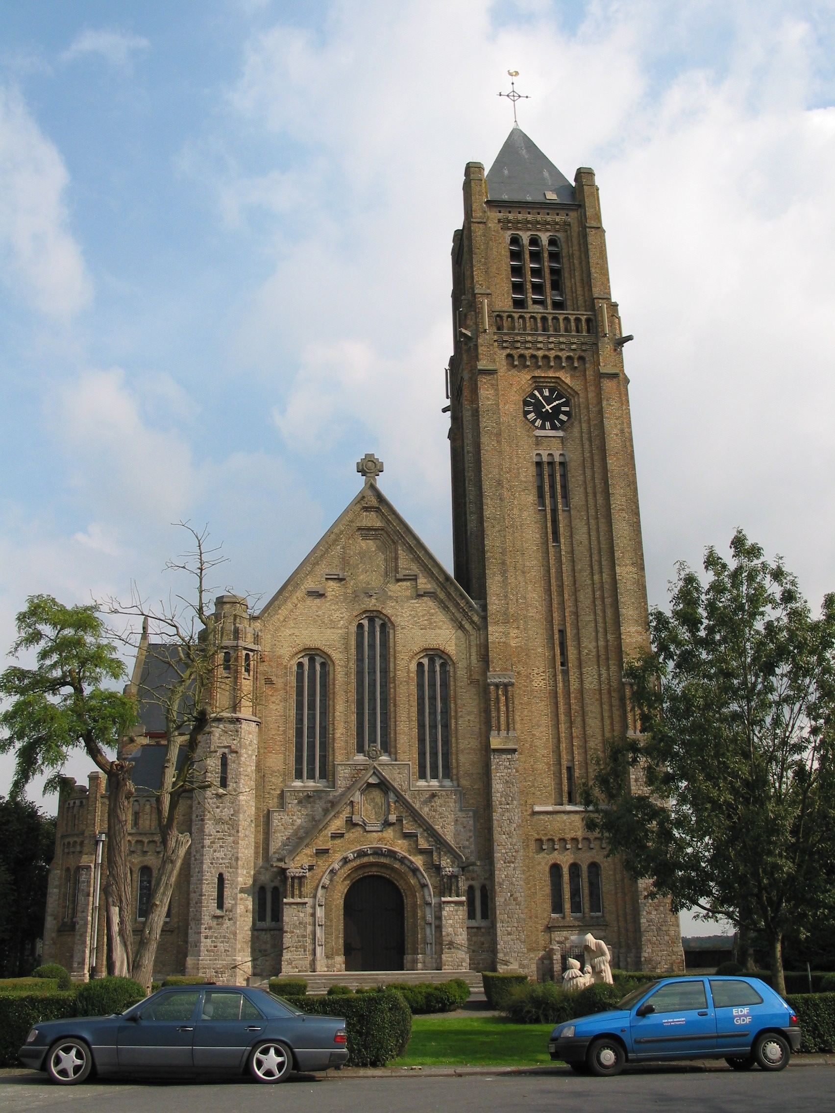 Warneton (Belgium), the St. Peter and Paul church (1927).